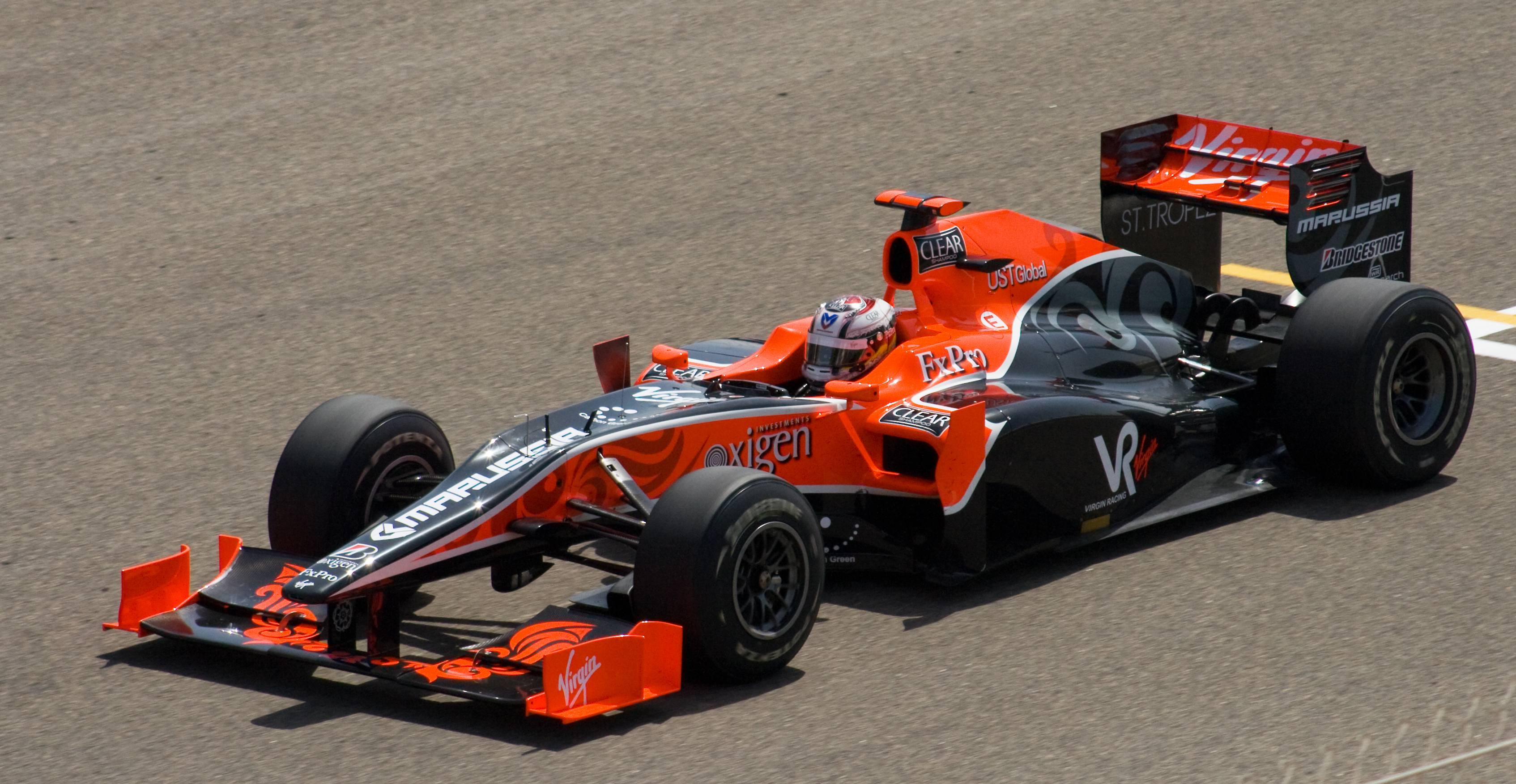 I think that this is Timo Glock. I took this photo during a Friday practice session at the 2010 Bahrain Formula One.